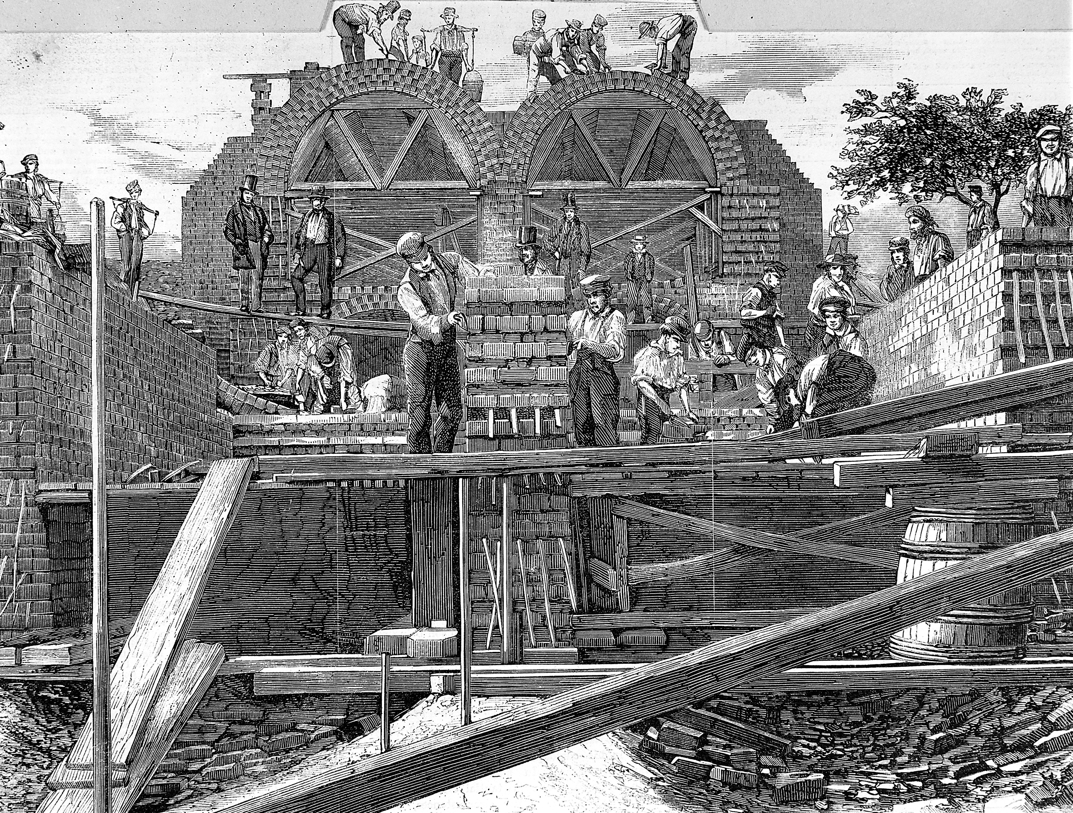 The main drainage of the Metropolis - sectional view of sewerage tunnels from Wick Lane, near Old Ford, Bow, looking westward Wellcome Images